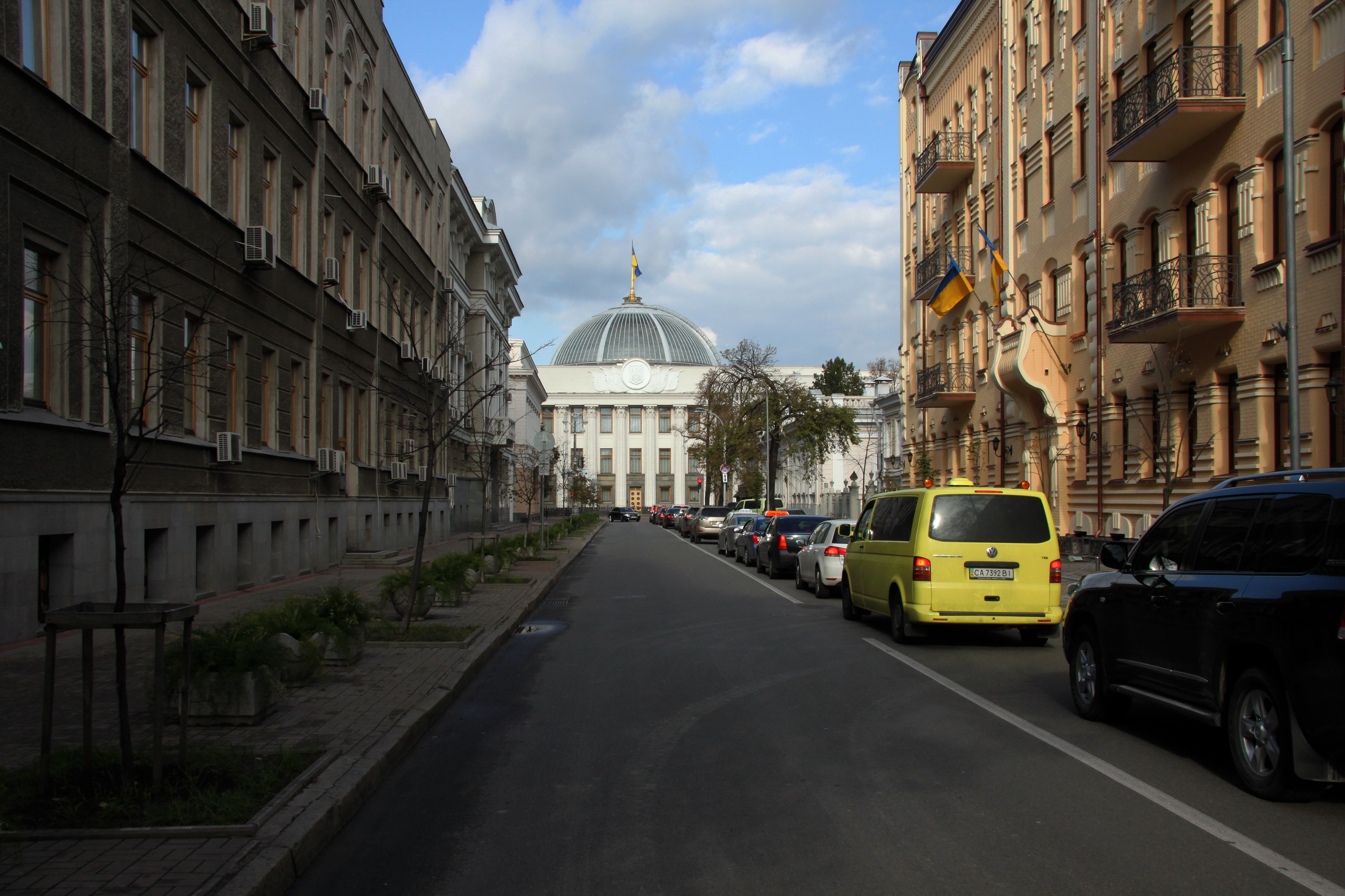 Parliament of Ukraine. Listed ID 80-382-0099. - Mykhaila Hrushevskoho Street, Pechersk Raion, Kiev